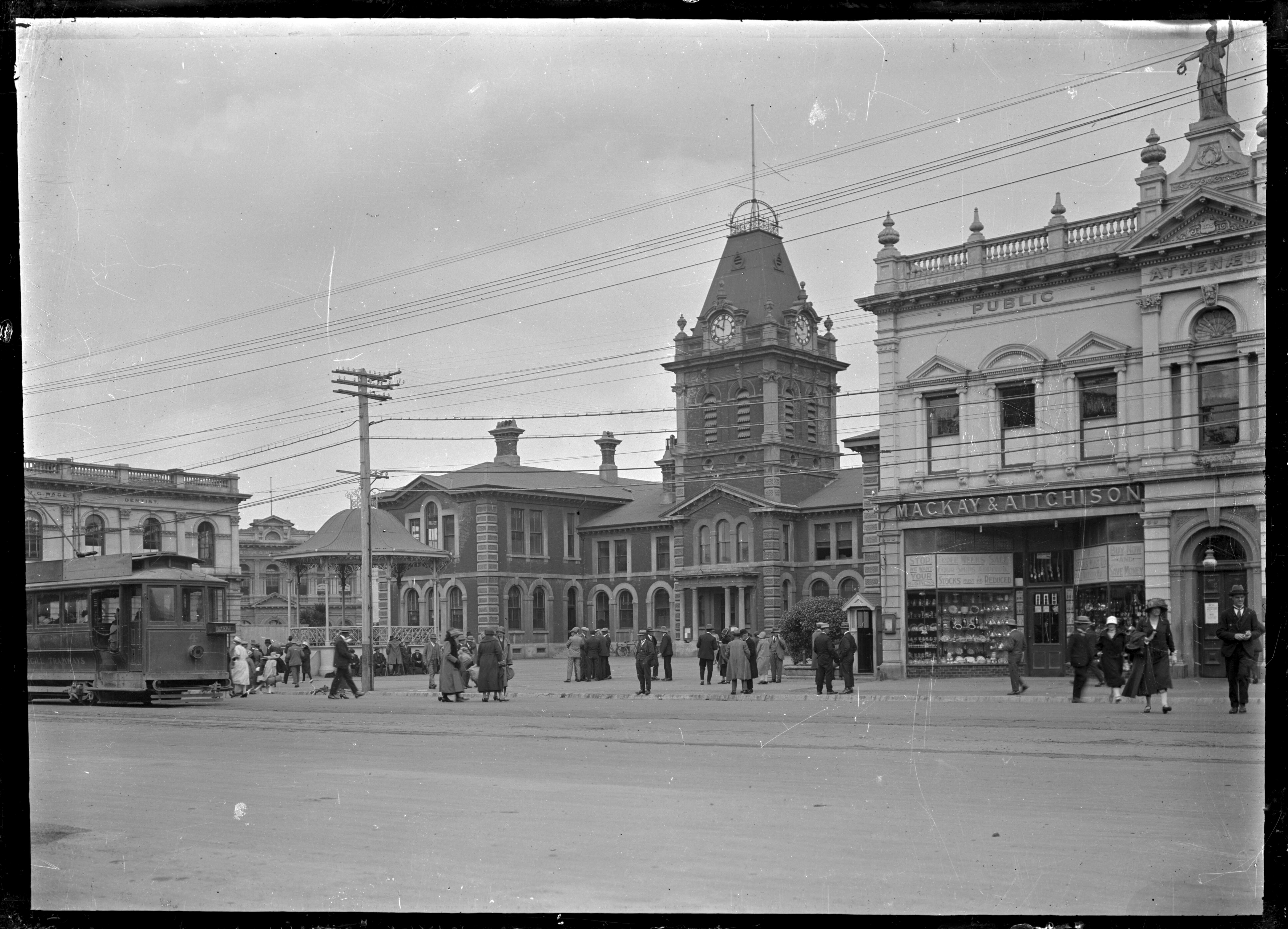 Exterior view of The Invercargill Post Office. To the right are the premises of McKay & Aitchison, Arcade Auction Mart, auctioneers, valuers etc. A number of people are walking in the square in front of the Post Office, and there is a tram centre left. Photographed by Albert Percy Godber in 1925.